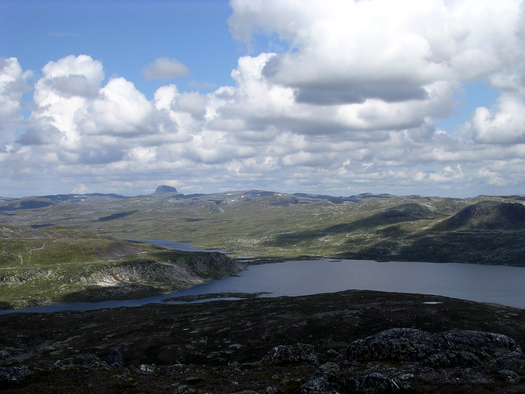 Hardangervidda, Norway. The picture is taken from the mountain Velurenuten, near the lakes Litlosvatnet (left lake) and Kvennsjøen (right lake).